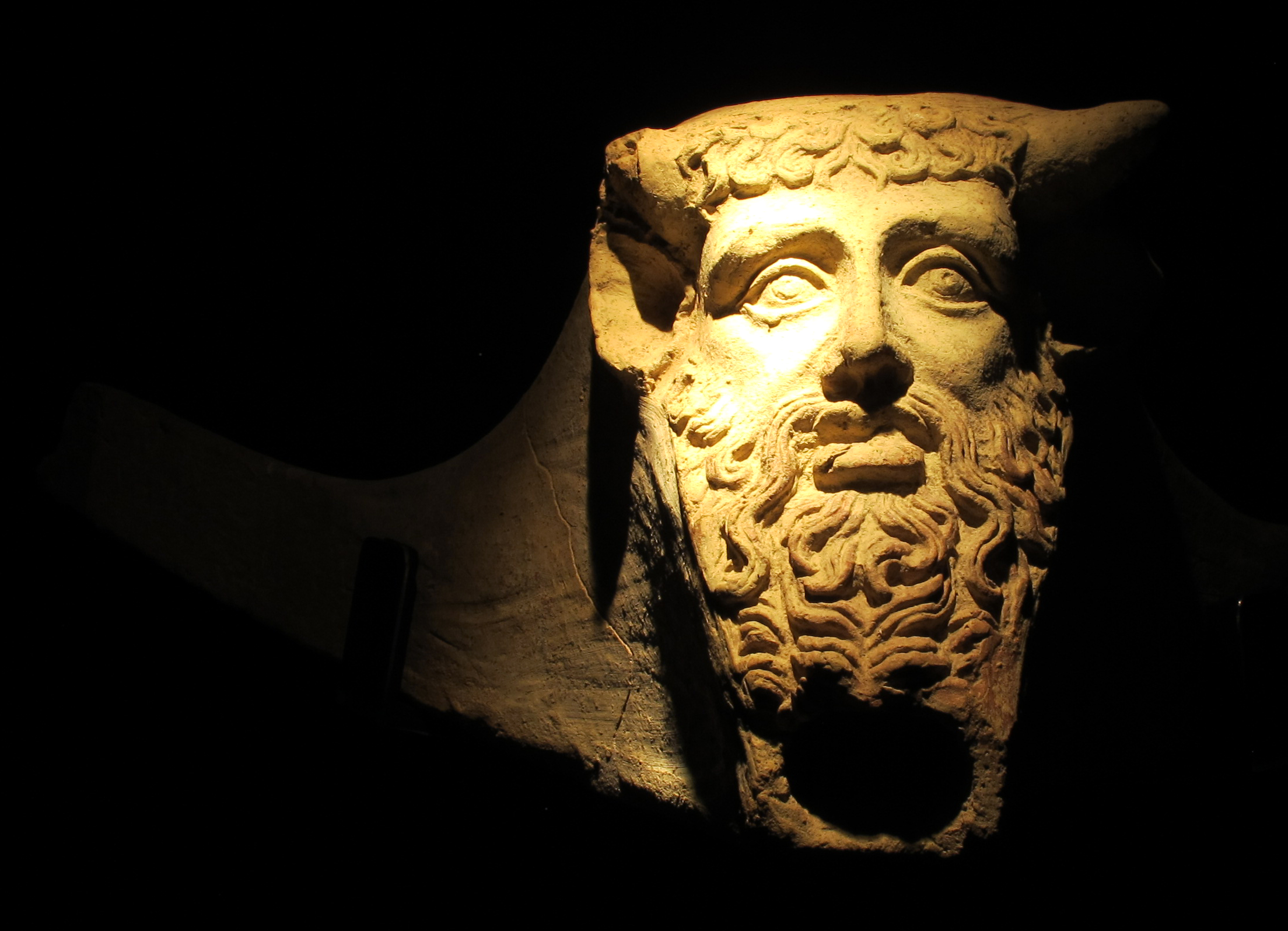 Monsters Exhibition (Palazzo Massimo, Rome, 2014)